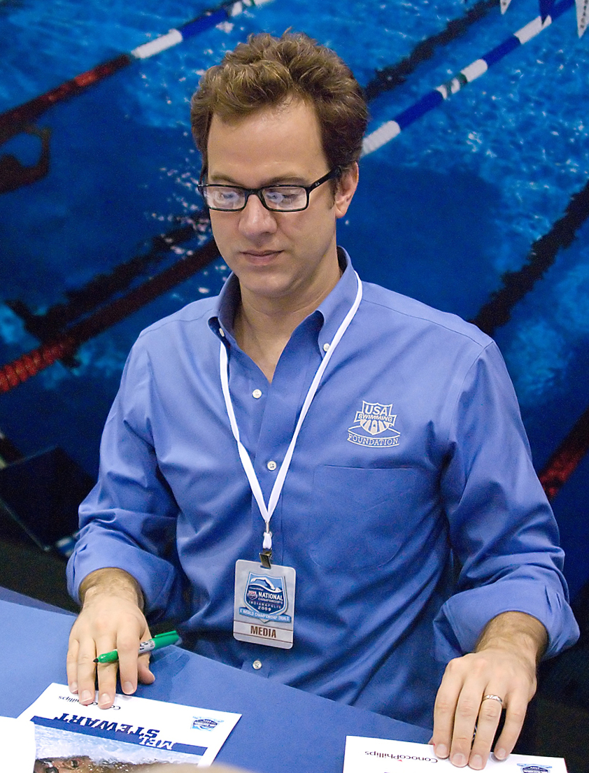 Melvin Stewart in 2009 at the trials to the world championships.